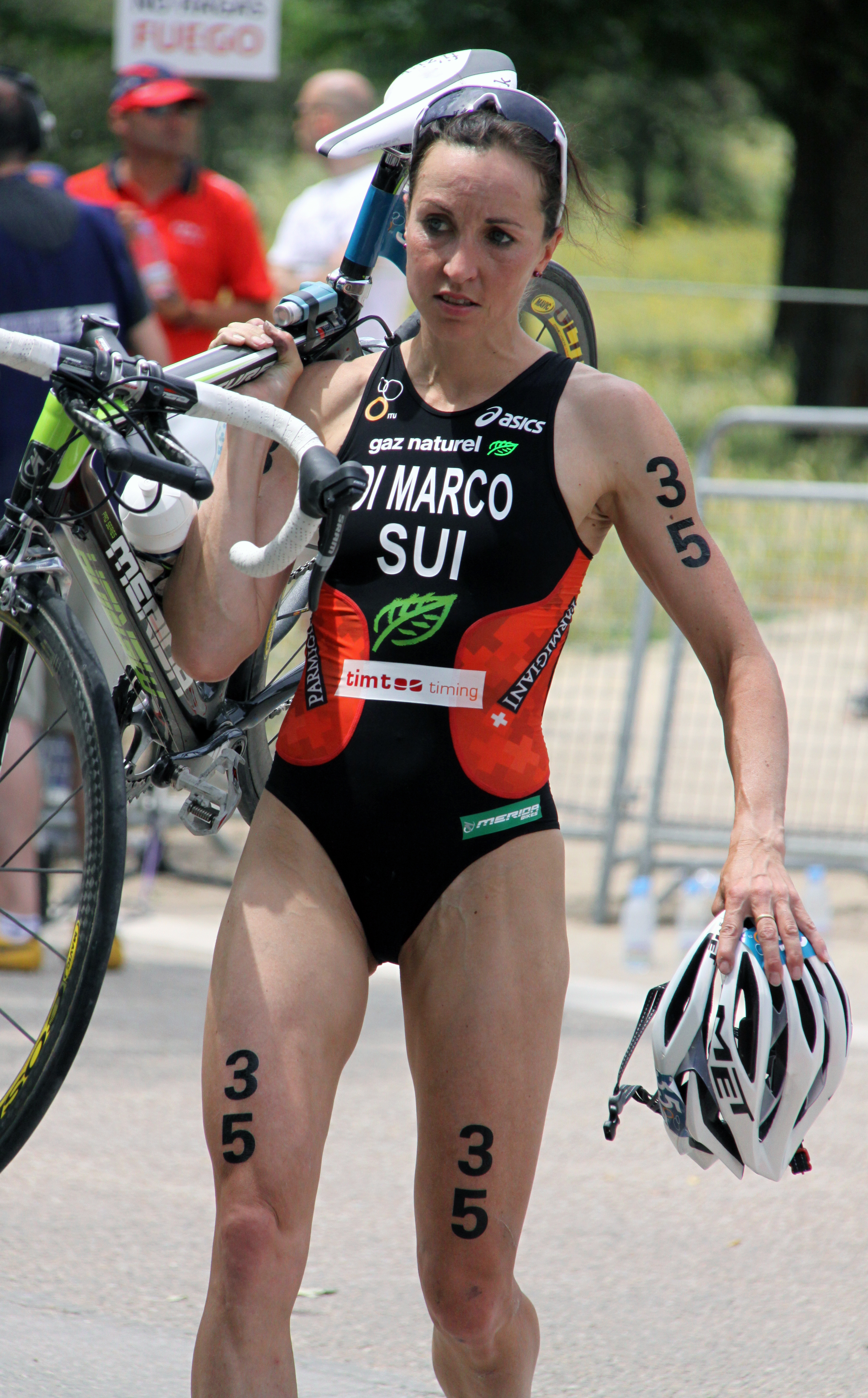 Magali Di Marco Messmer after a collective bike crash at the World Championship Series Triathlon in Madrid 2010.